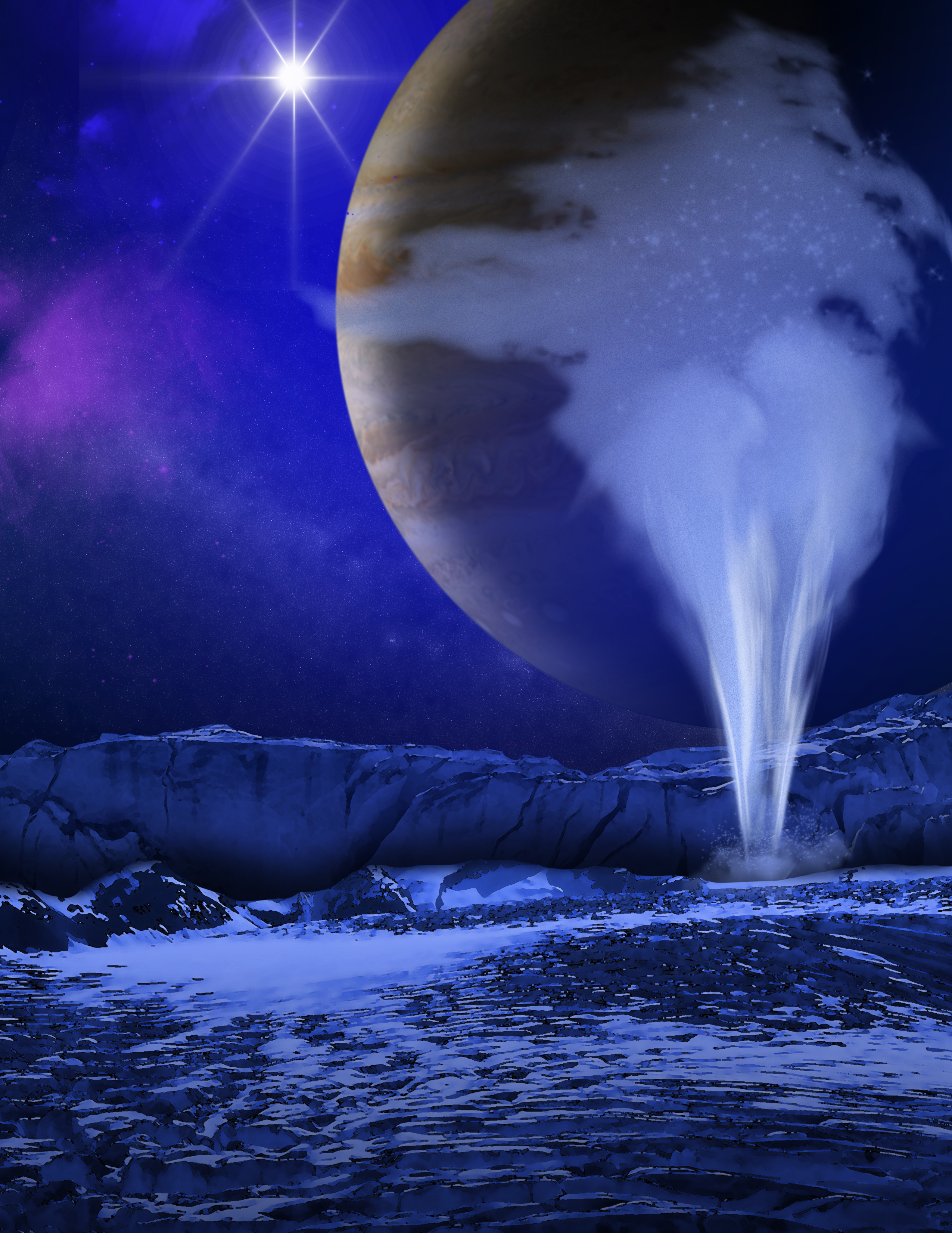 This is an artist's concept of a plume of water vapor thought to be ejected off the frigid, icy surface of the Jovian moon Europa, located about 500 million miles (800 million kilometers) from the sun. Spectroscopic measurements from NASA's Hubble Space Telescope led scientists to calculate that the plume rises to an altitude of 125 miles (201 kilometers) and then it probably rains frost back onto the moon's surface. Previous findings already pointed to a subsurface ocean under Europa's icy crust.